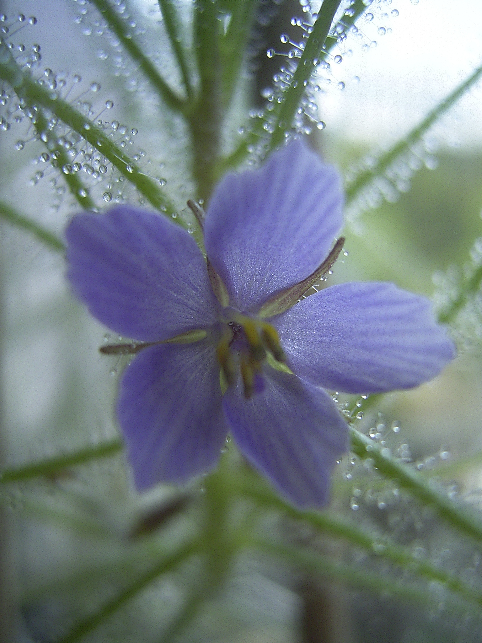 Byblis liniflora Author: Denis Barthel